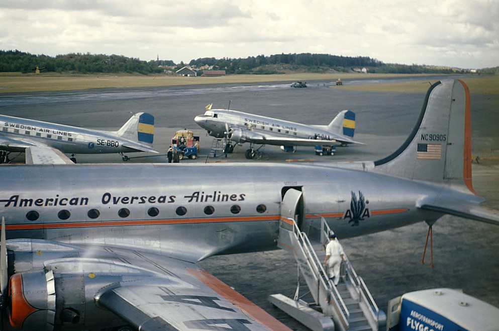 Aircraft at Bromma Airport near Stockholm City. One Douglas C-54 Skymaster from American Overseas Airlines and and two aircraft from Aerotransport Flygplan på Bromma flygplats nära Stockholms innerstad. Närmast kamera en Douglas C-54 Skymaster från American Airlines Company och två plan från ABA. Parish (socken): Bromma Province (landskap): Uppland Municipality (kommun): Stockholm County (län): Stockholm Photograph by: Fredrik Bruno Date: 1947 Format: Colour slide Kulturmiljöbild: 16001000228644 (Persistent URL) Read more about the photo database (in english)